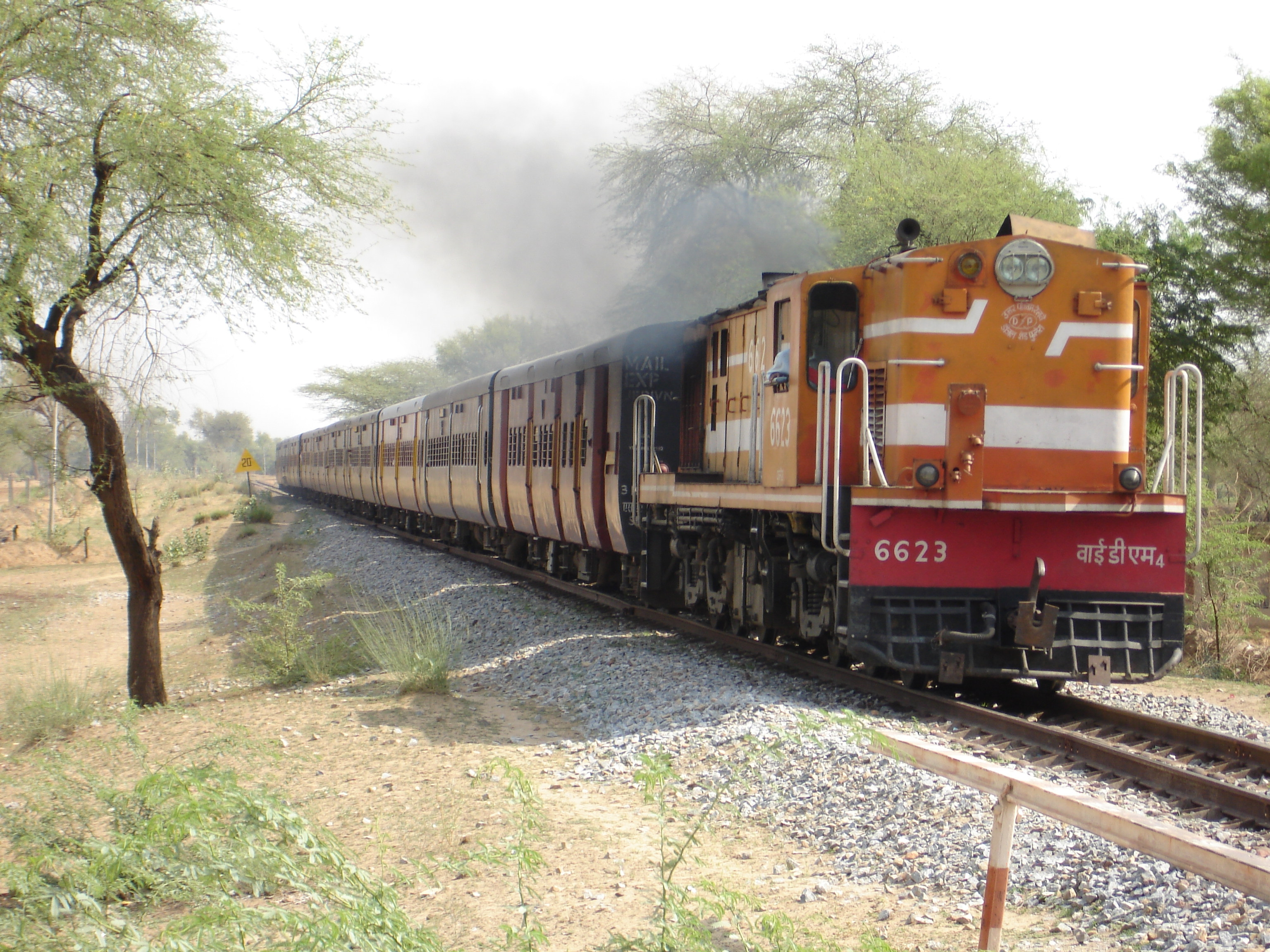 Train crossing